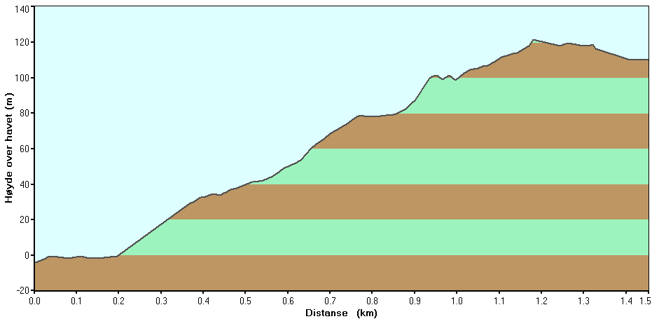 Height profile climbing the mountain Øyfjellet, Sømna, Norway